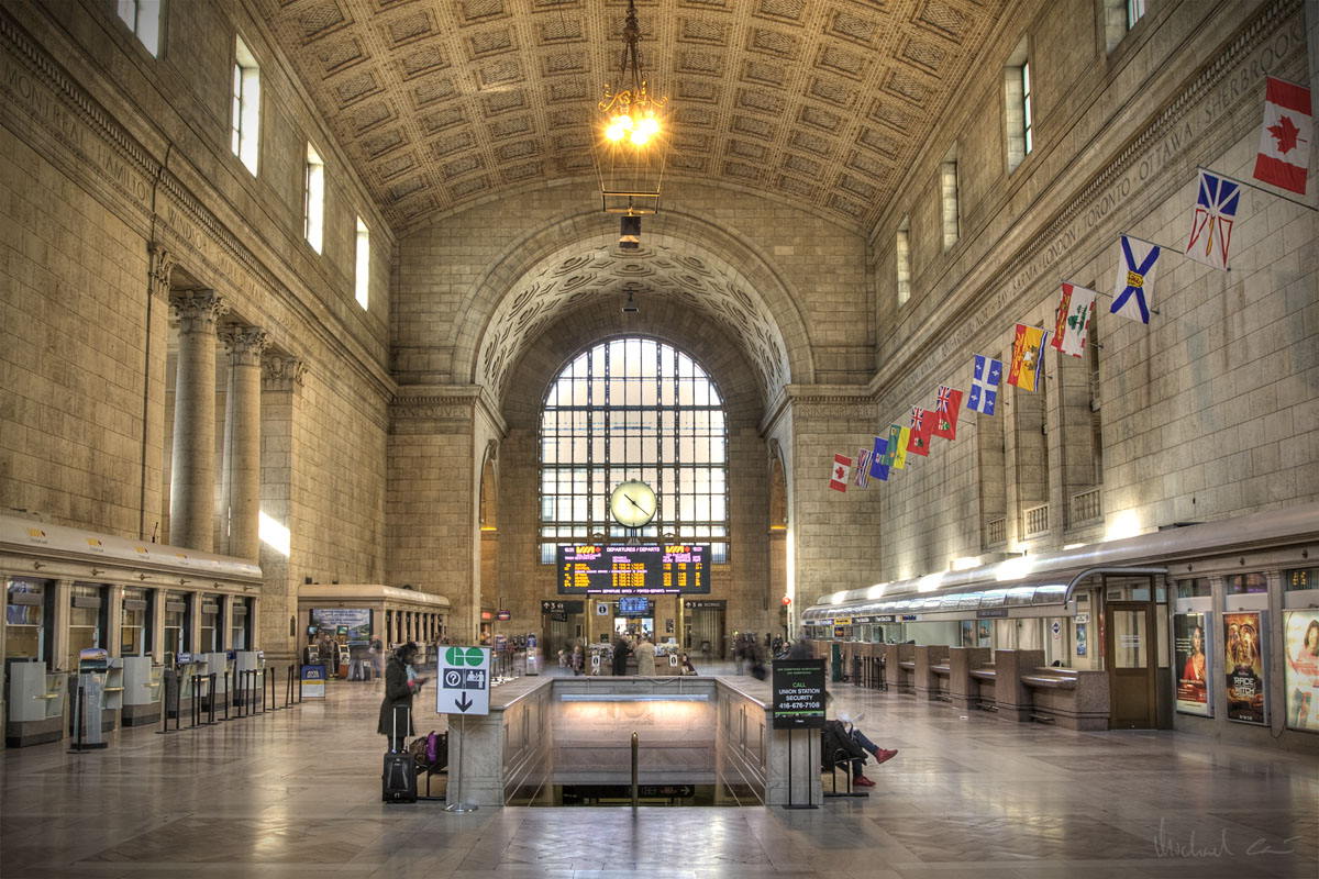 Union Station in Toronto, Canada.